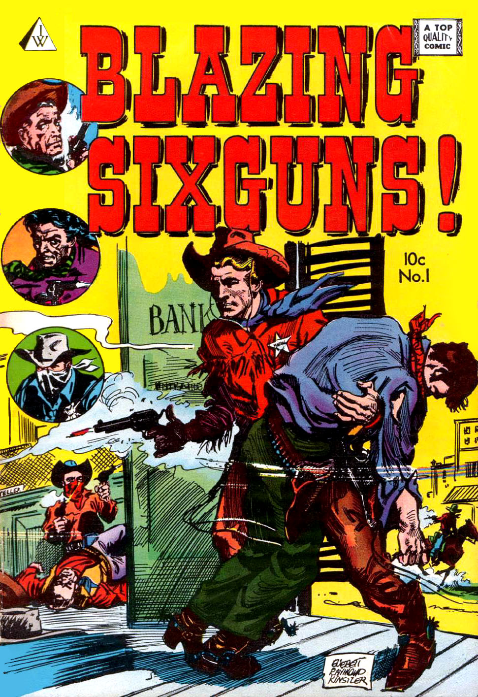 Cover illustration for Blazing Sixguns number 1 (IW Publishing, 1958). Western comics gained increasing popularity during the 1950s, surviving well into the so-called Silver Age. Artwork by Everett Raymond Kinstler.